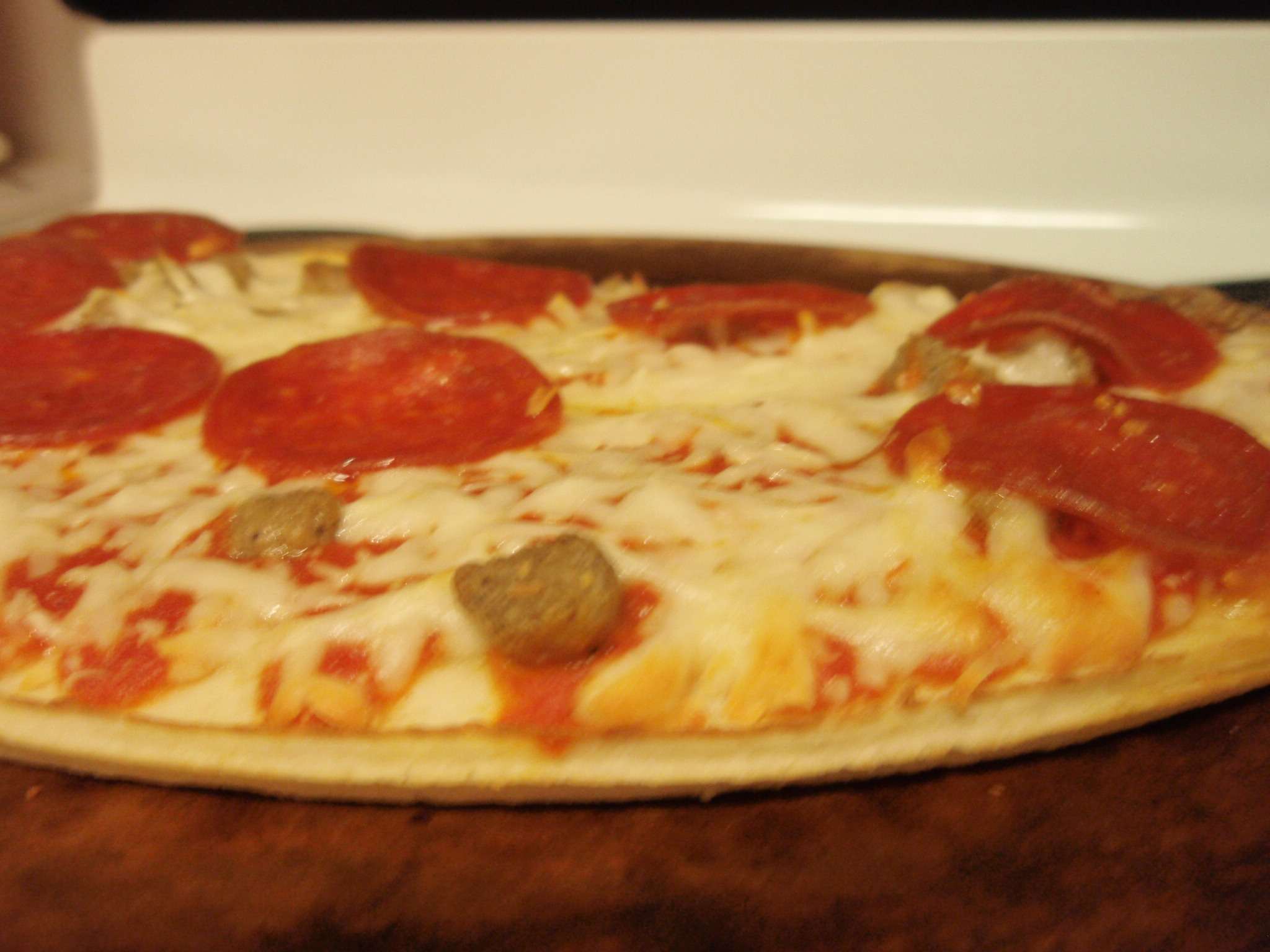 Tombstone Pizza - Sausage and Pepperoni